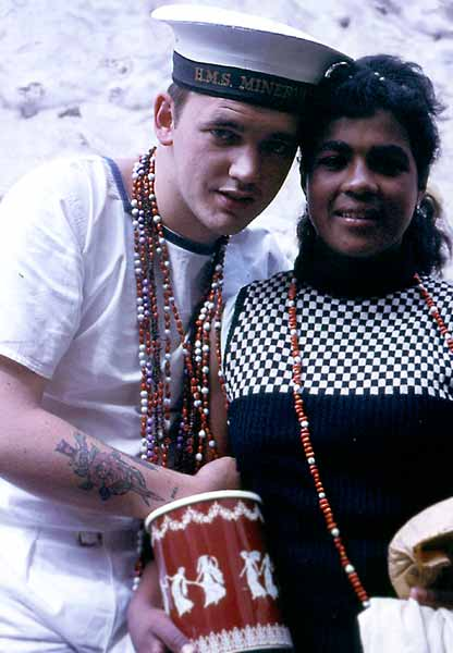 Man and woman, St. Helena, June, 1970